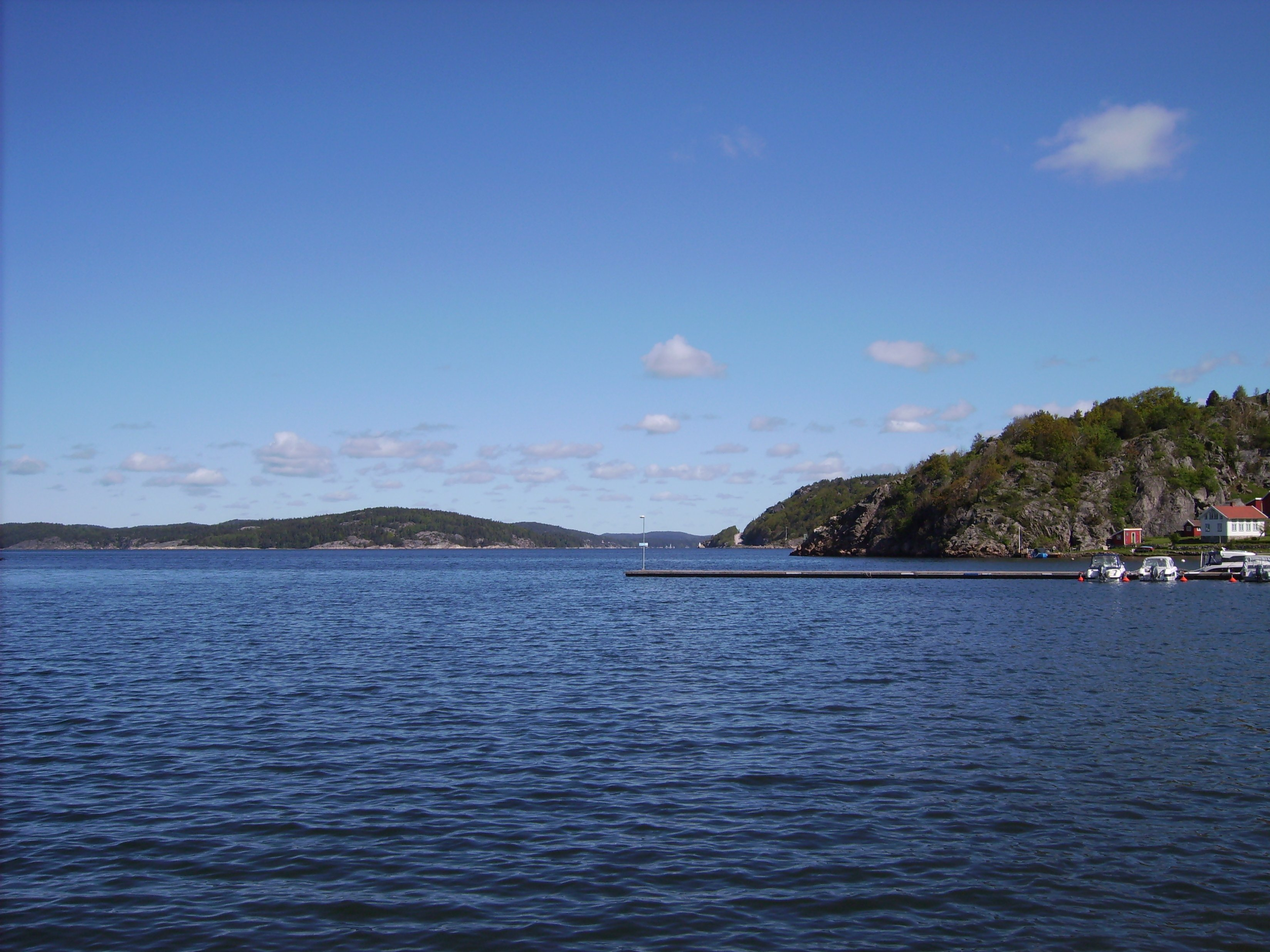 The urban district Henån on island and also own municipality Orust on the west coast of Sweden.